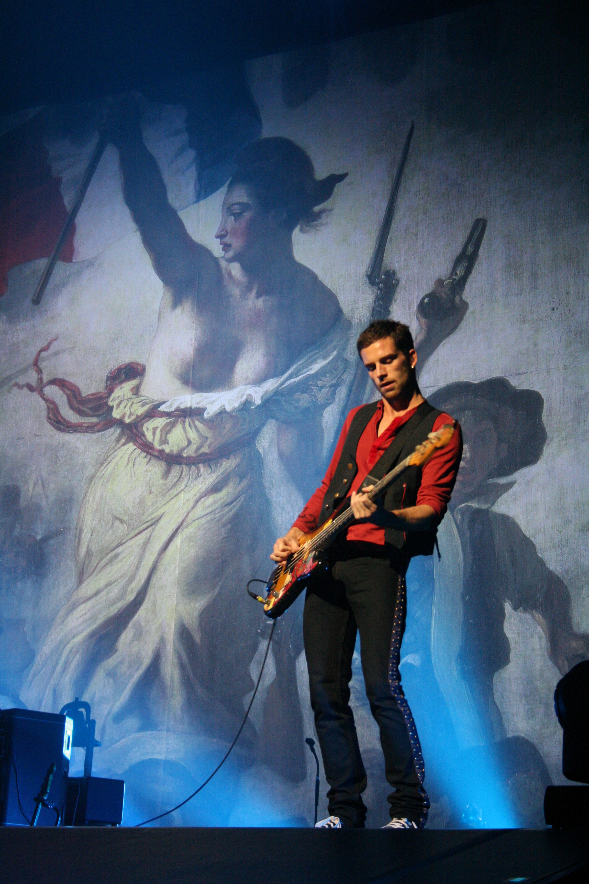 Guy Berryman during the Viva la Vida Tour, Madrid